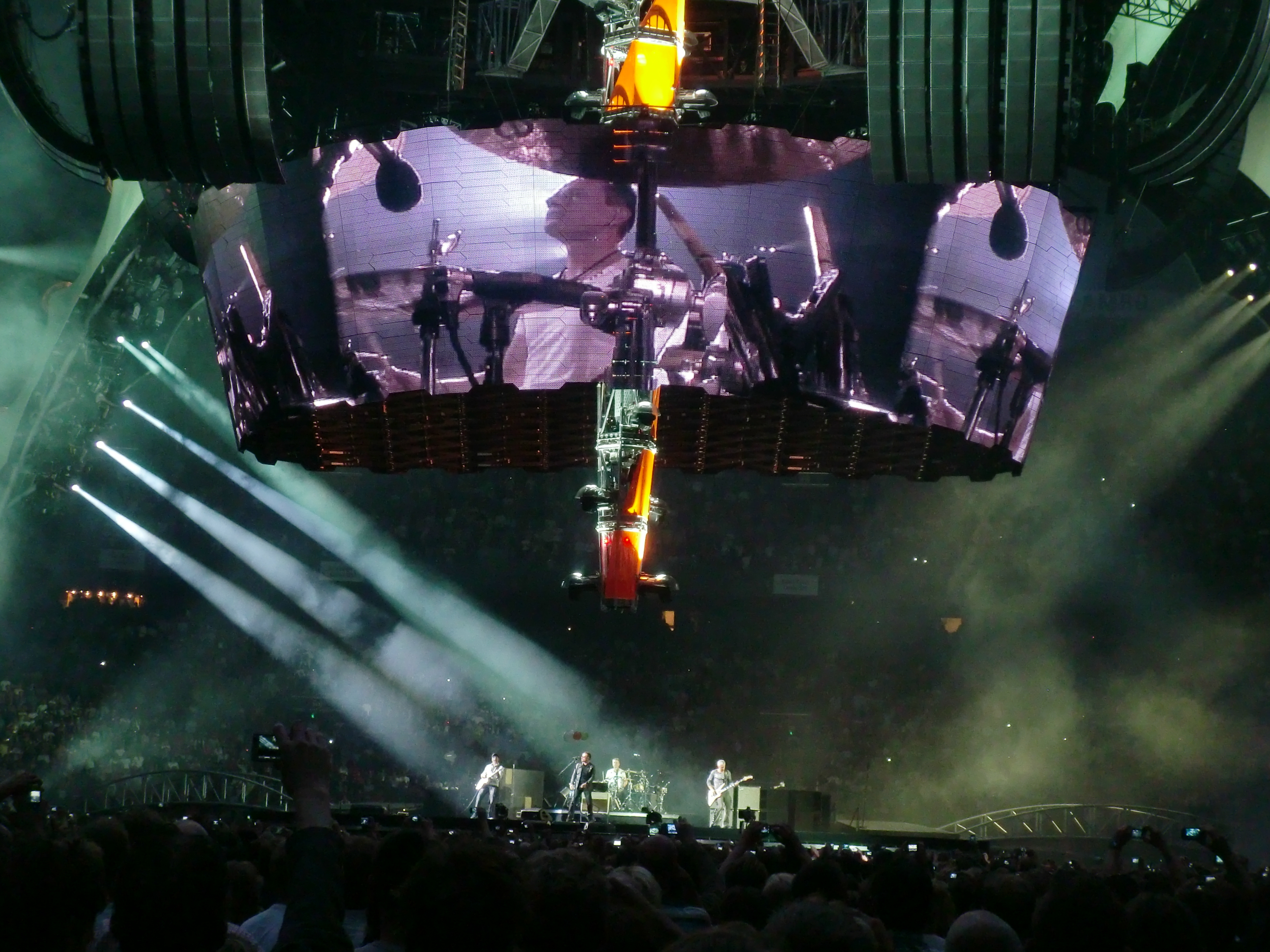 U2 at the Amsterdam ArenA during the 360° Tour.